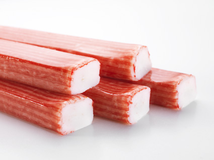 Crabsticks